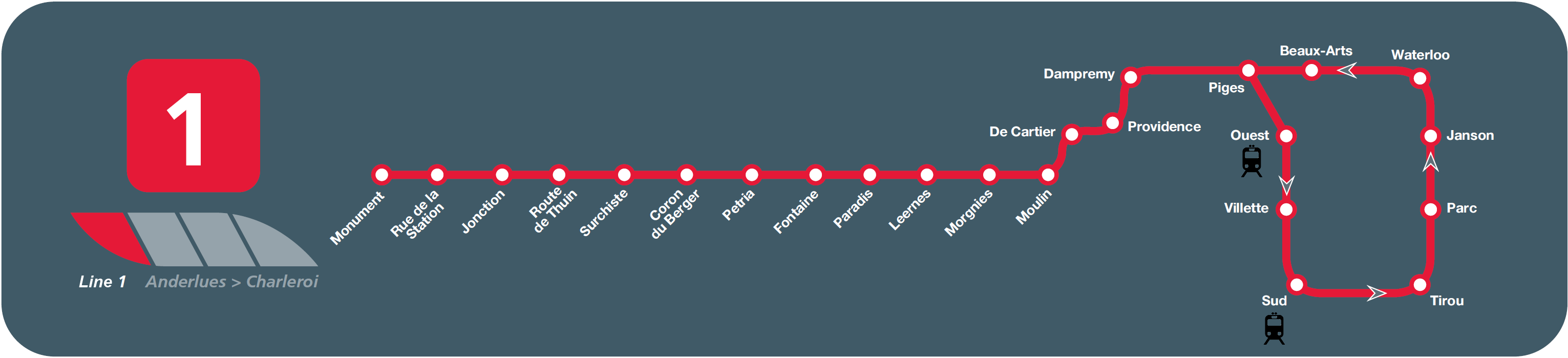 Charleroi Metro Line 1 map as of February 27, 2012